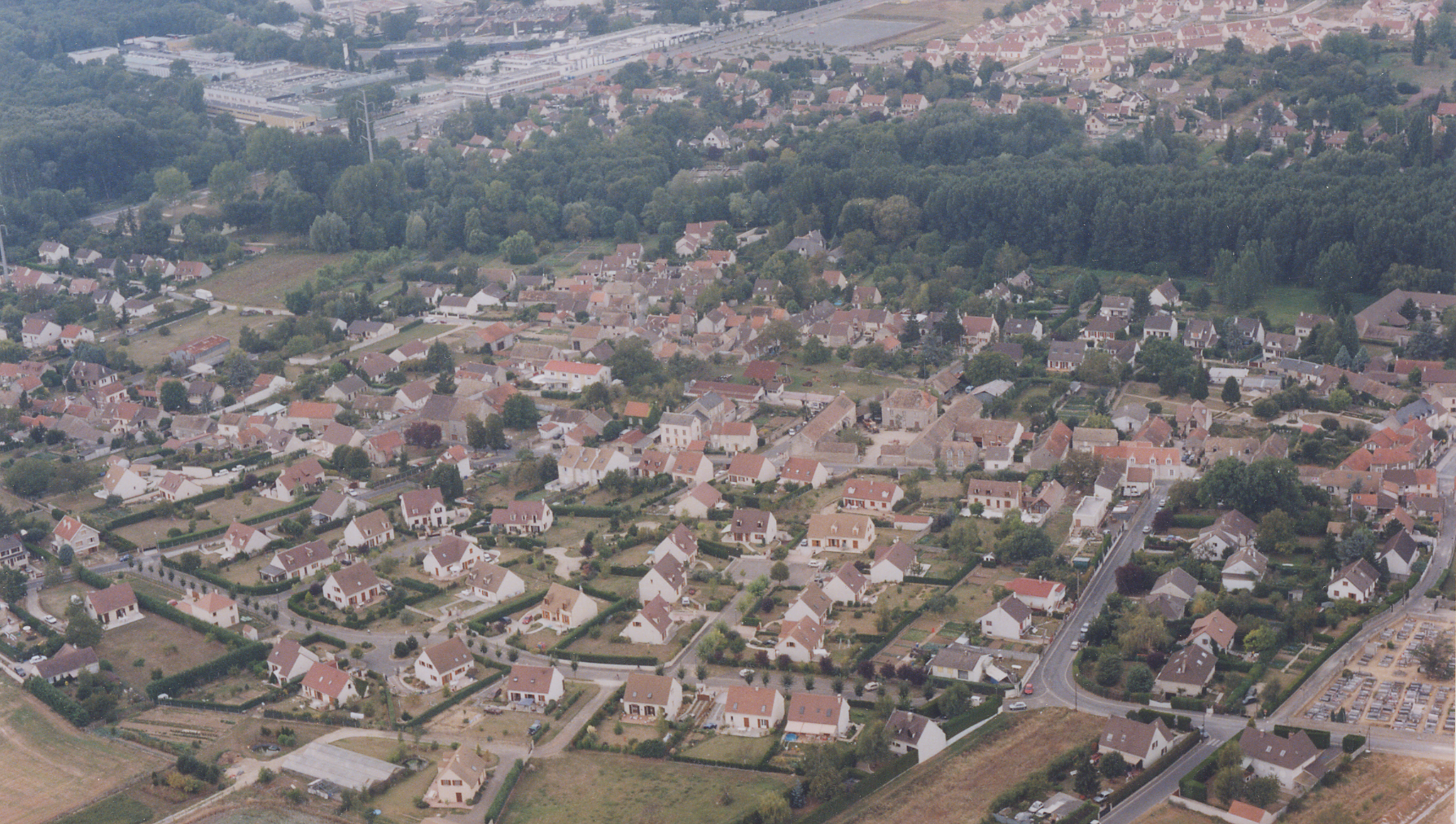 Bouray-sur-Juine, Essonne, Ile-de-France, France. View from a plane.